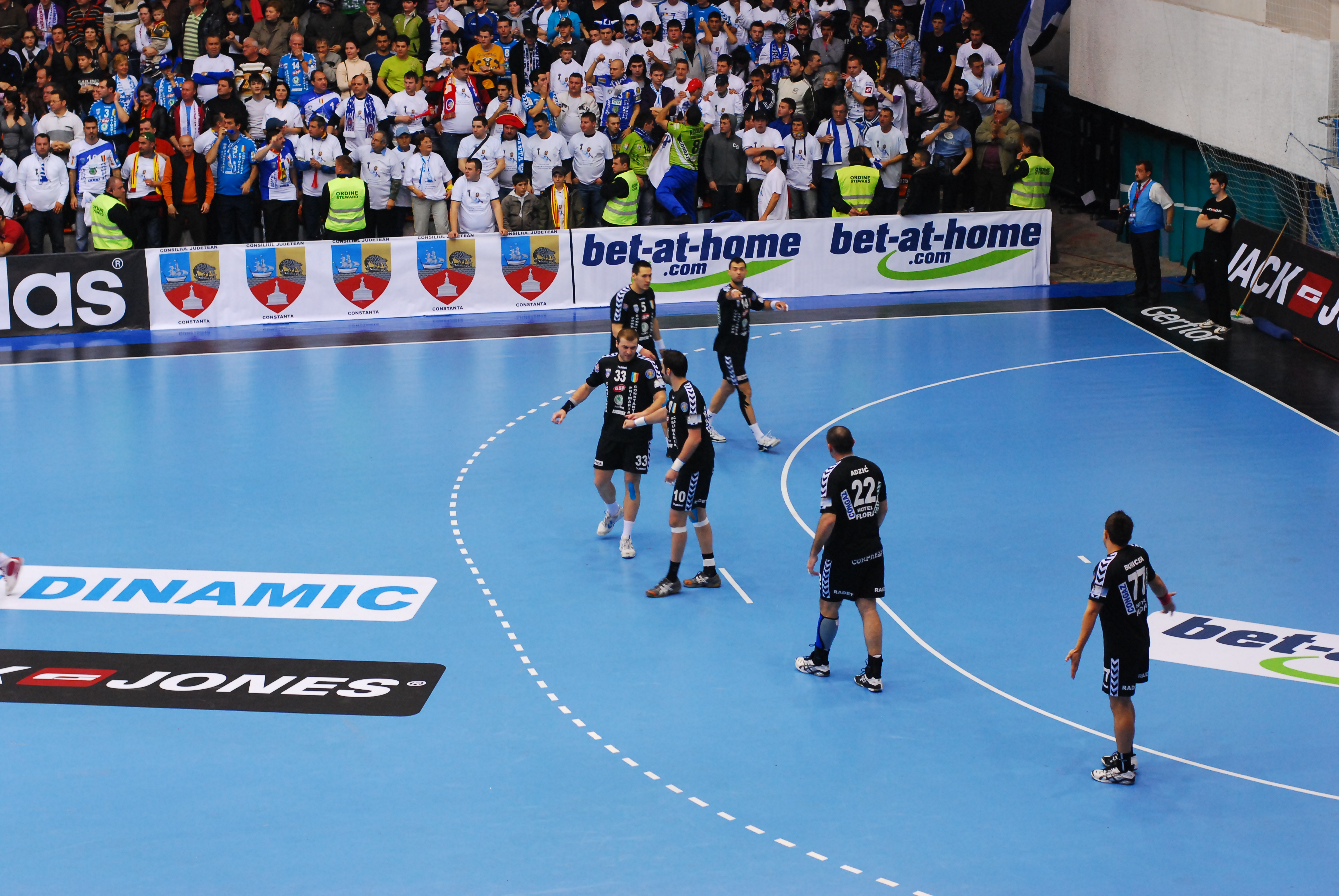 HCM Constanţa preparing for defense in a game against KC Veszprém in an EHF Champions League game played in Buzău. Far to near: Toma, Schuch, Mureşan, Băiceanu, Adzic, Buricea